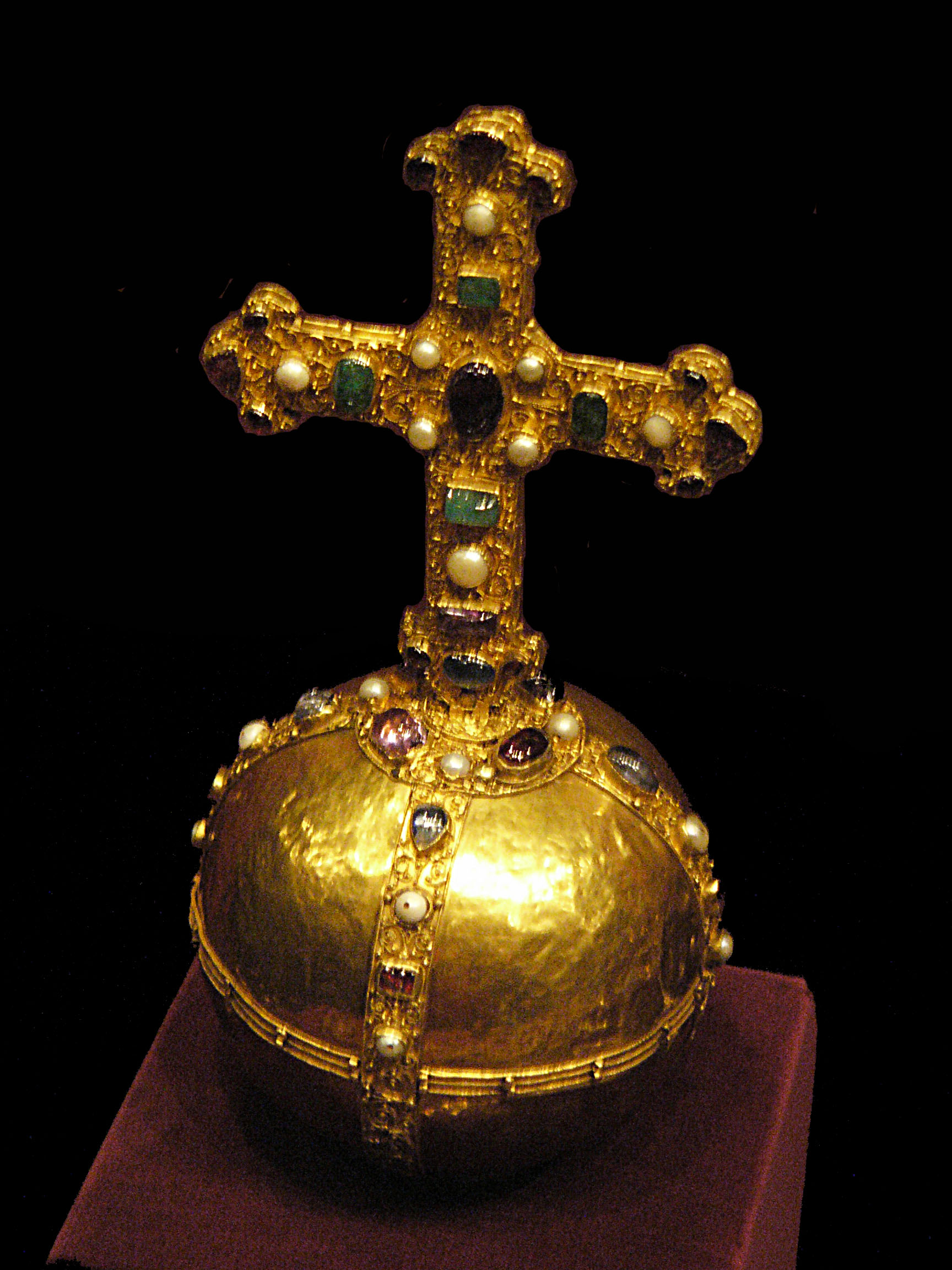 Imperial Orb of the Holy Roman Empire in Schatzkammer in Wien (Austria).